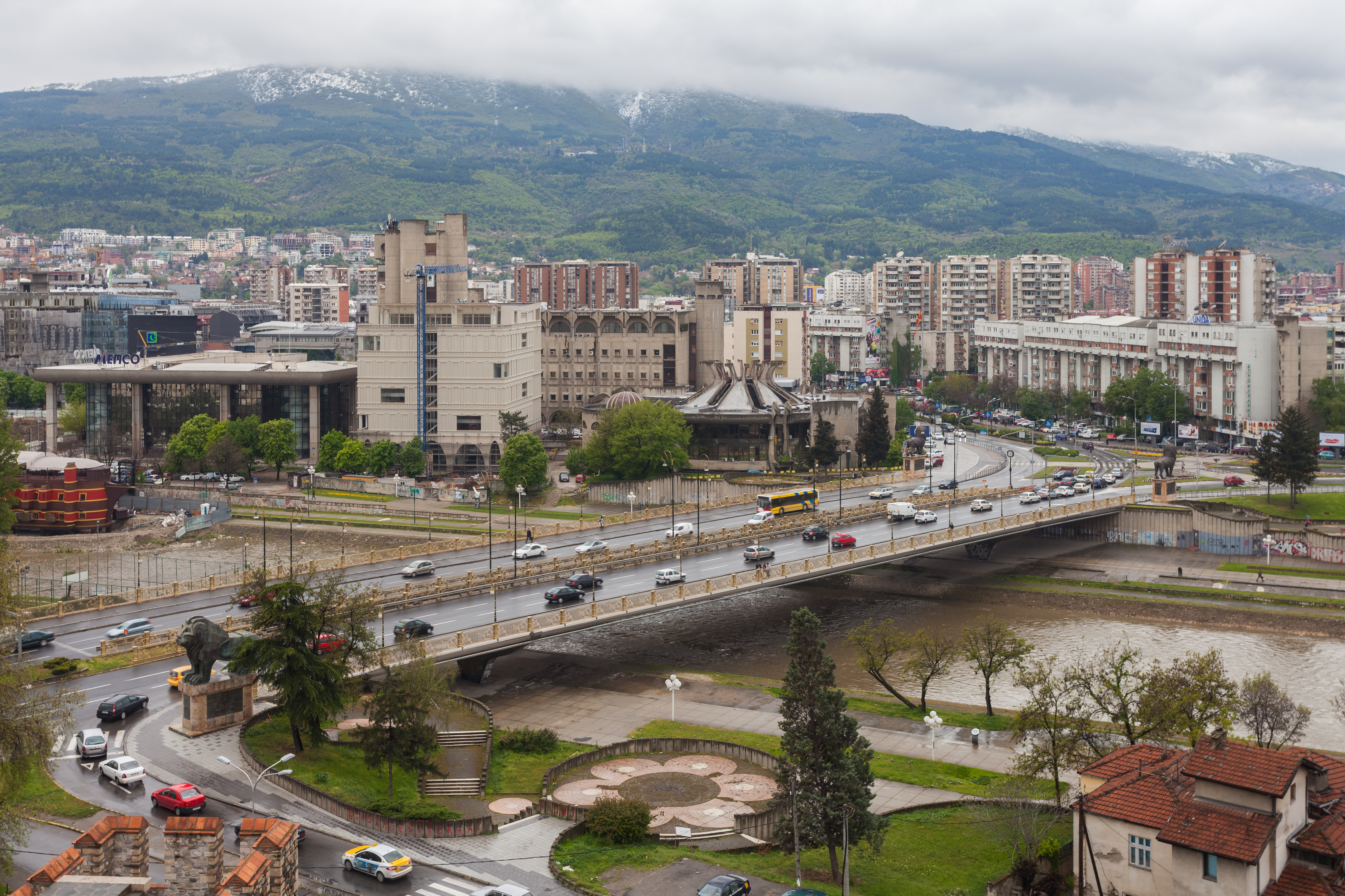 Goce Delčev bridge, Skopje, Republic of Macedonia